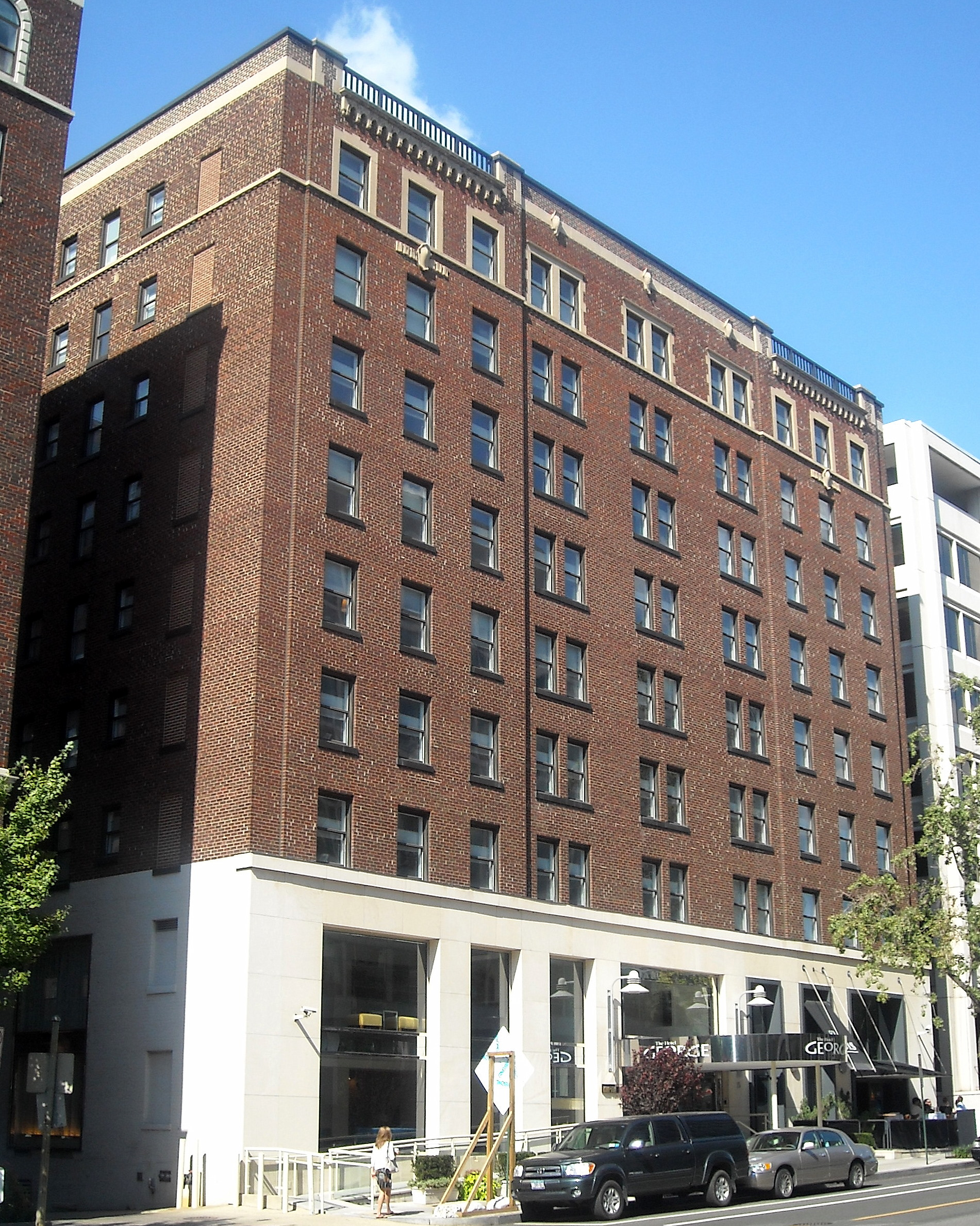 The Hotel George at 15 E Street, NW in Washington, D.C.